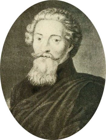 Contemporary portrait of Francis Beaumont